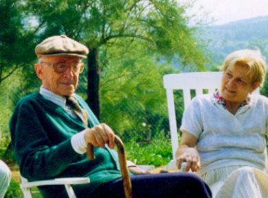 Claude Cahen and his wife Paulette in their property of Morvan, in Chézet, in 1989